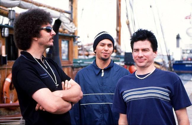 Primus band in Kopenhagen Primus at Langelinie, Copenhagen, Denmark in the summer of 1998. From left to right: Les Claypool, Bryan Mantia and Larry LaLonde. They played a concert the same day at Store Vega, Copenhagen.